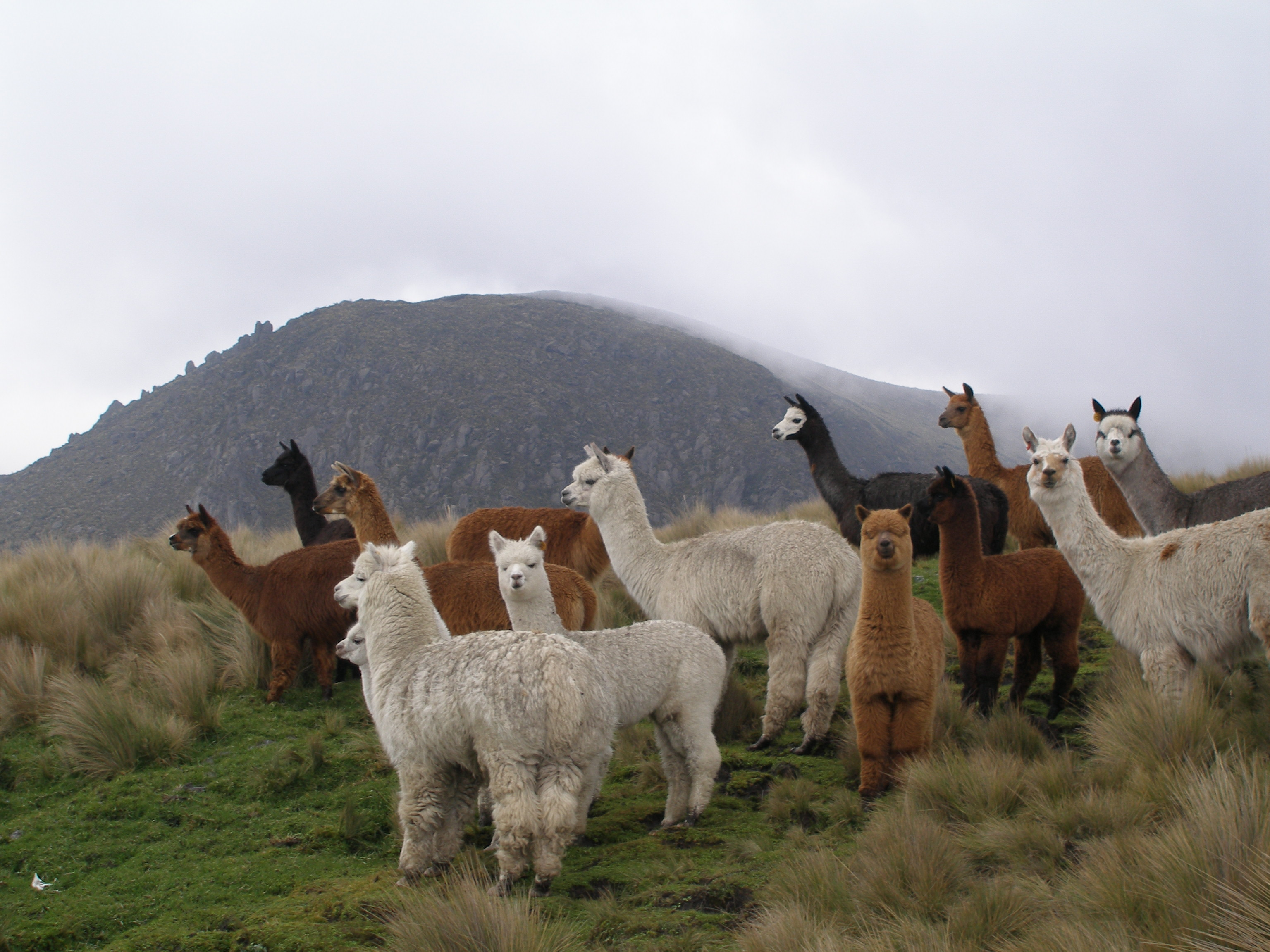 A picture of alpacas in Ecuador.